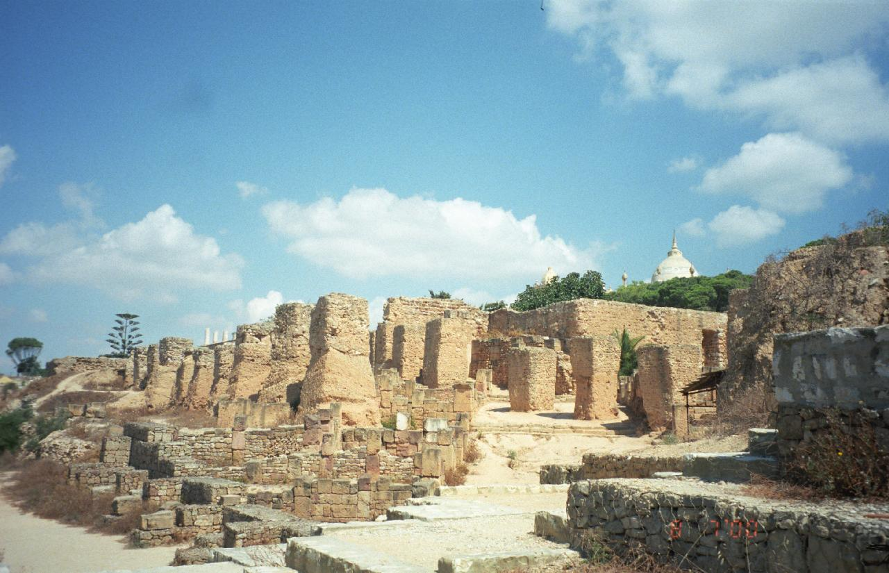 Punic Ruins, Carthage.